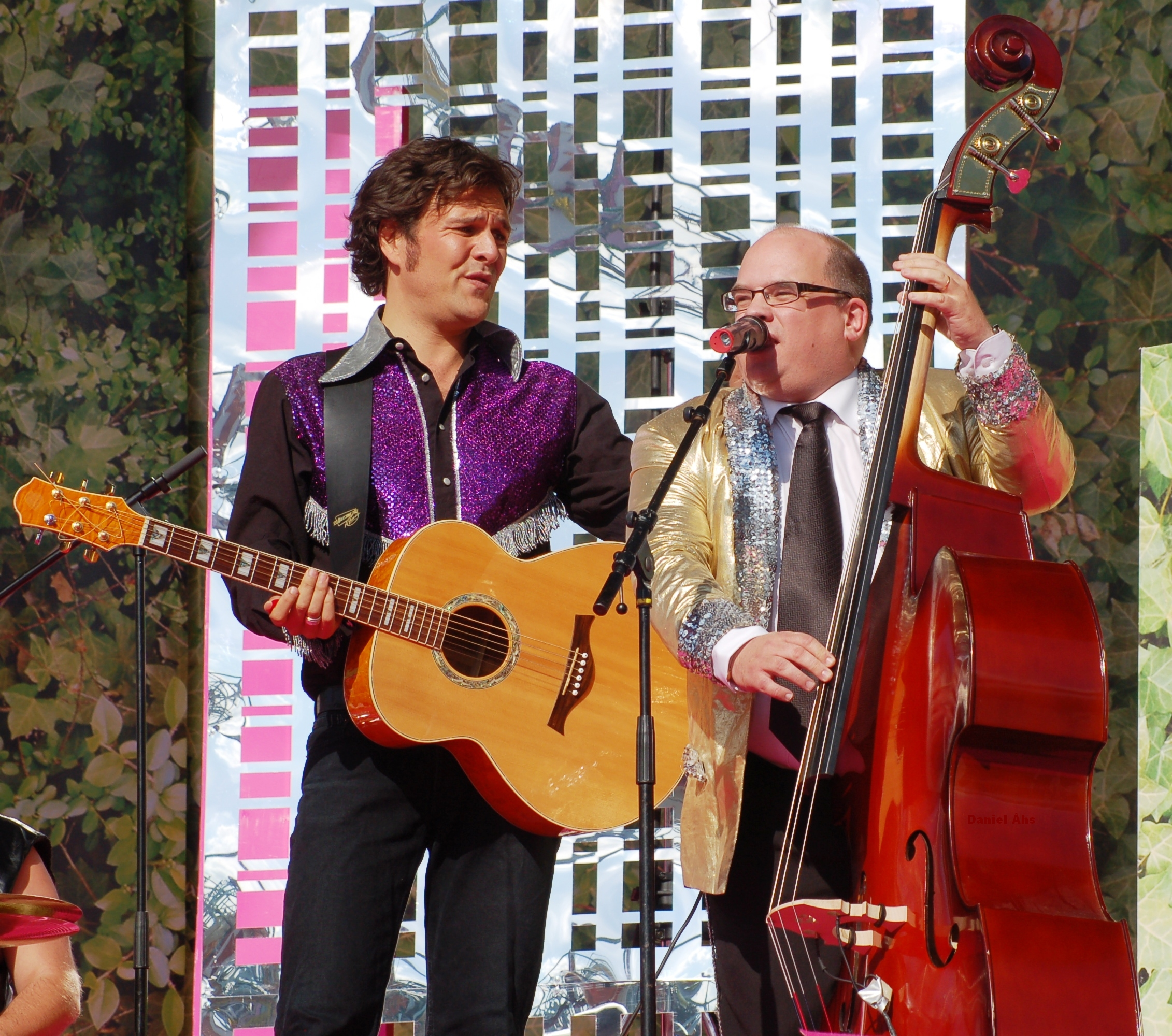 Two members of Lars Vegas Trio at Gröna Lund, Sommarkrysset